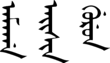 "amaga aisin gurun" written in Manchu script, 117×70 2 KB